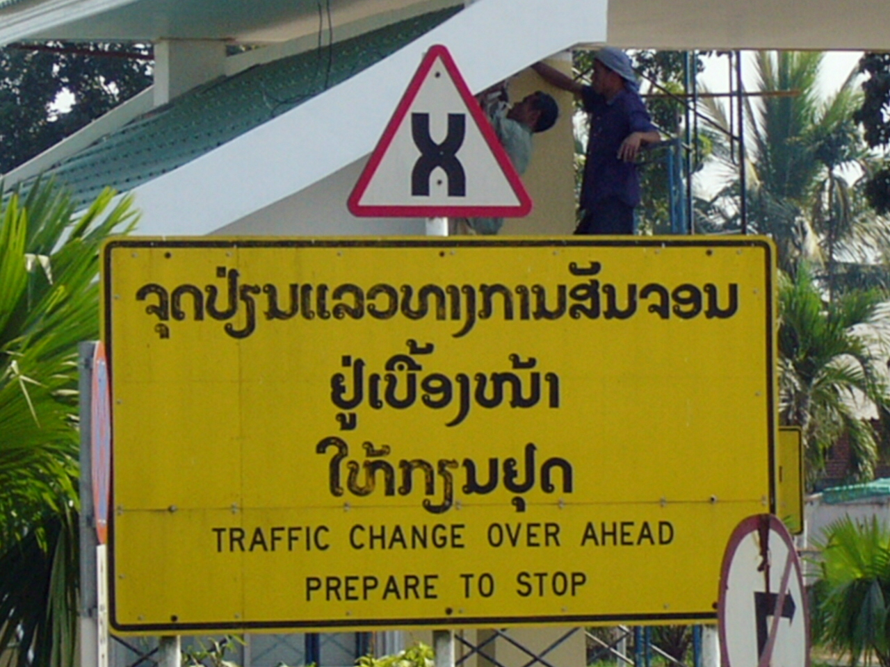 Change of Traffic direction in road transport (symbol and text sign) at the Thai-Lao border — Thai–Lao Friendship Bridge — (Vientiane with right hand traffic → Nong Khai with left hand traffic. This sign is posted on the Laotian side just in front of the bridge. The border is further ahead but the border control is done here. A few meters ahead, there is a traffic light regulating the crossing of sides (junction). The picture shows a very rare traffic sign ("X").